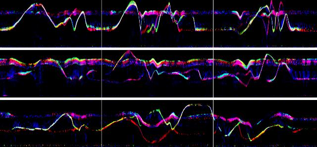 Three dancers were asked to move freely to music for 5 minutes. Motiongrams were created from video recordings of each of the dancers, to study similarities and differences between their performances.